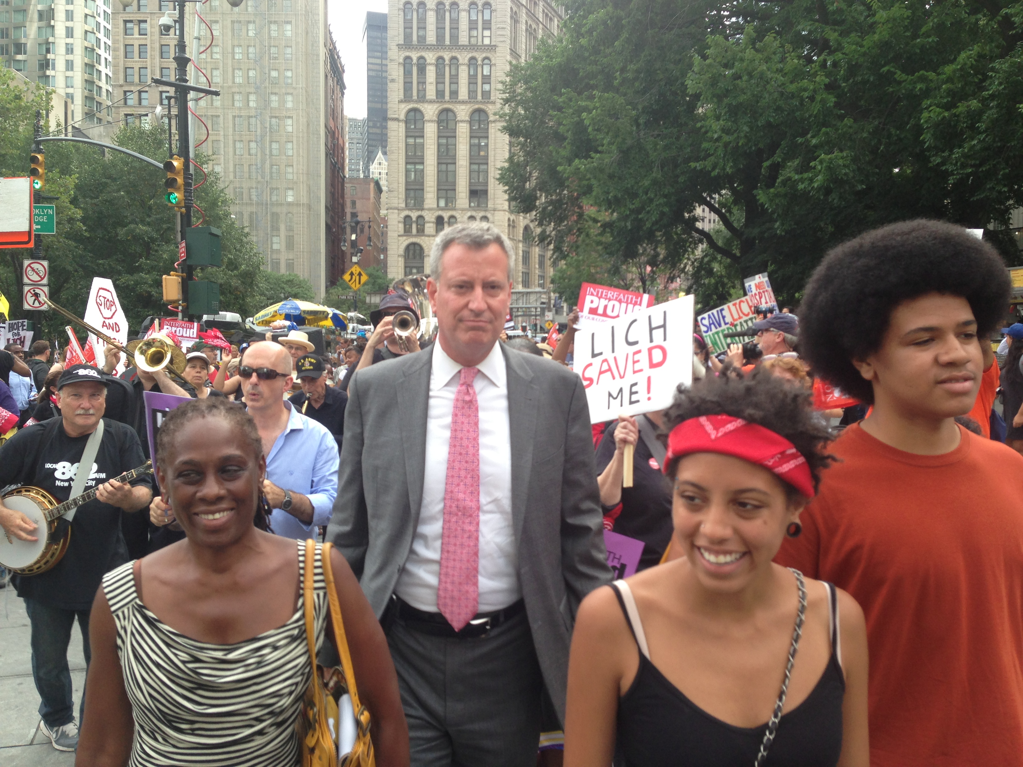 Public Advocate Bill de Blasio today joined doctors, nurses, health care workers and activists at a major rally to protest the closure of Long Island College Hospital and Interfaith Medical Center.